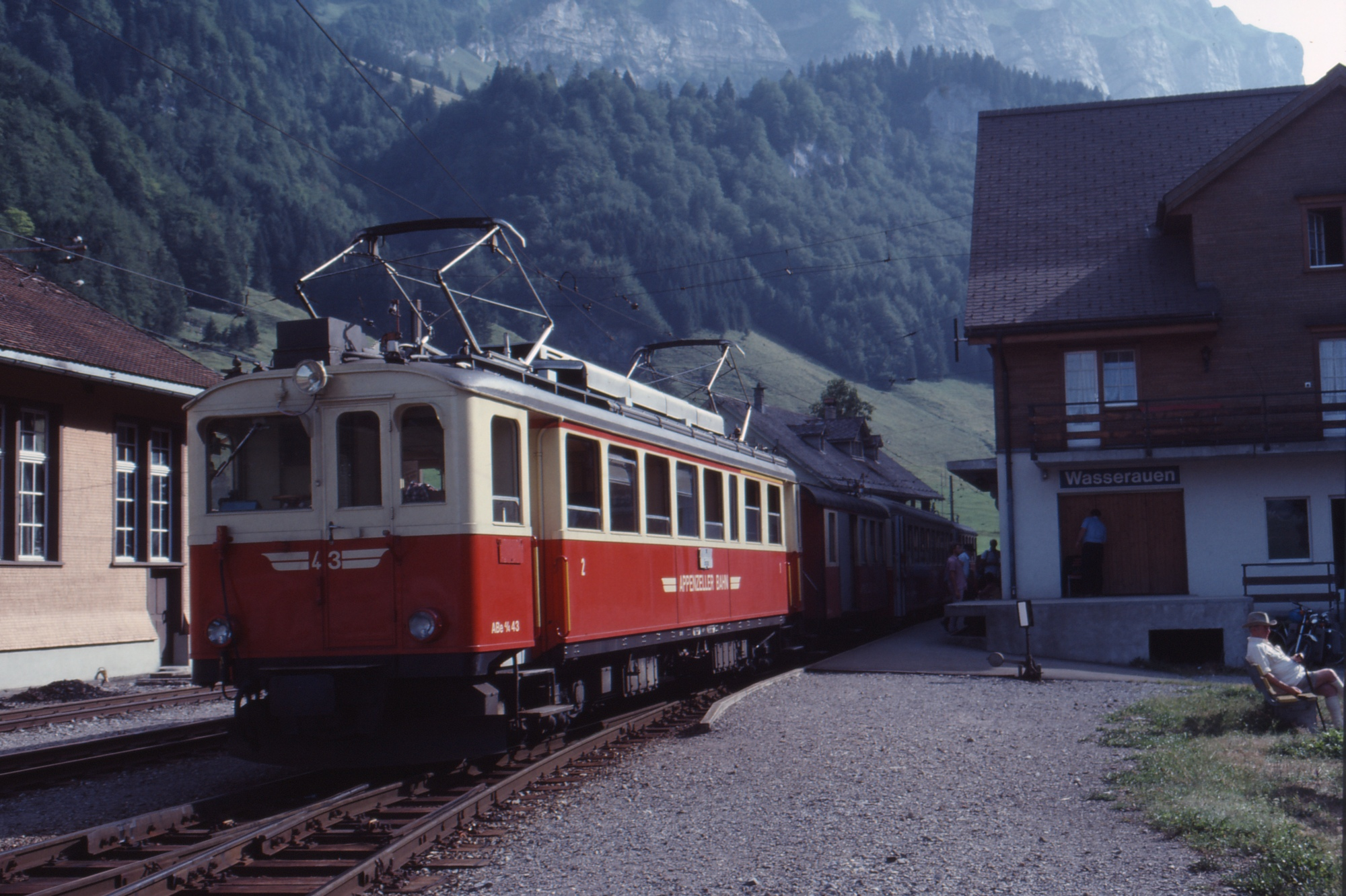 Appenzeller Bahn (Switzerland) ABe 4/4 43 at Wasserauen Station